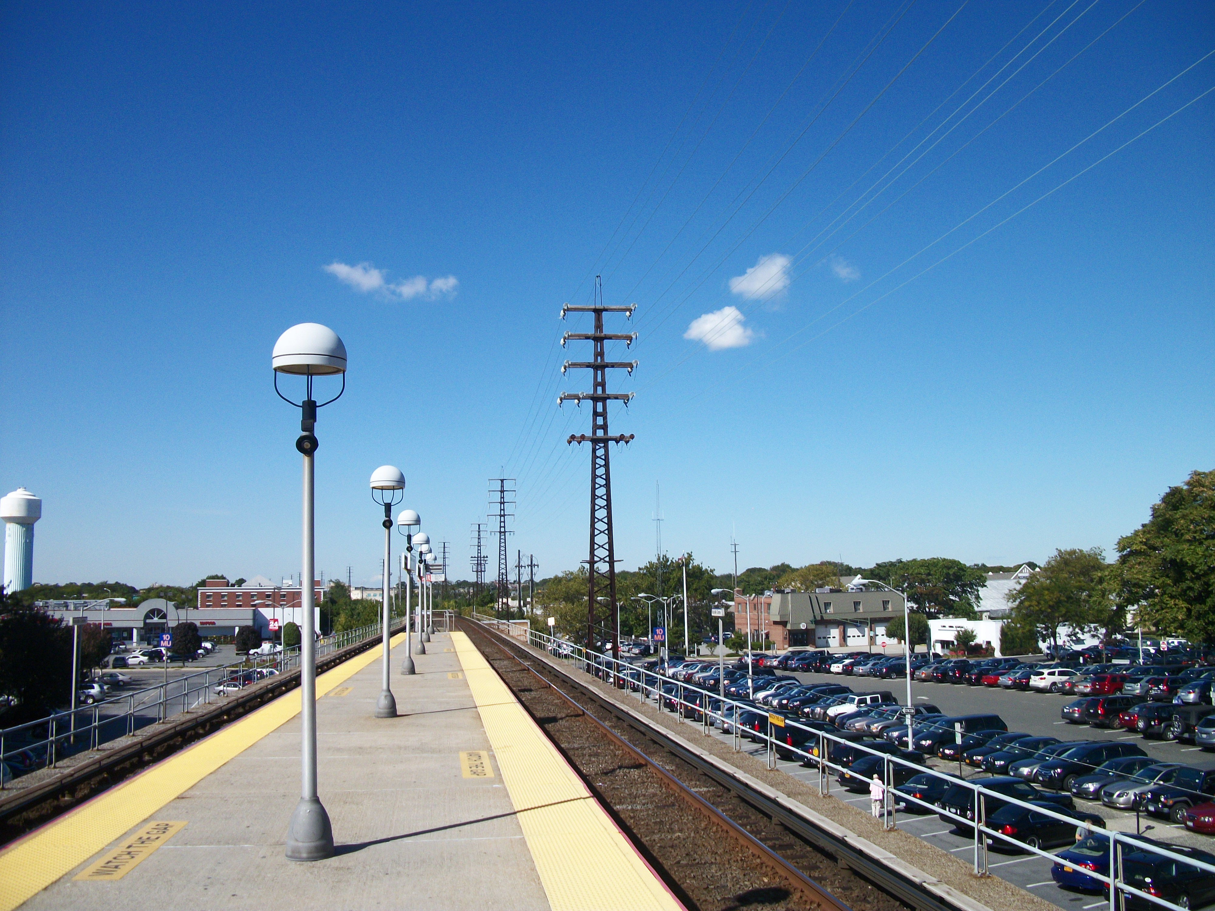 The center platform at Rockville Centre (LIRR station) in Rockville Centre, New York, looking west toward Lynbrook, Valley Stream, Jamaica, Brooklyn, Long Island City, and Manhattan.